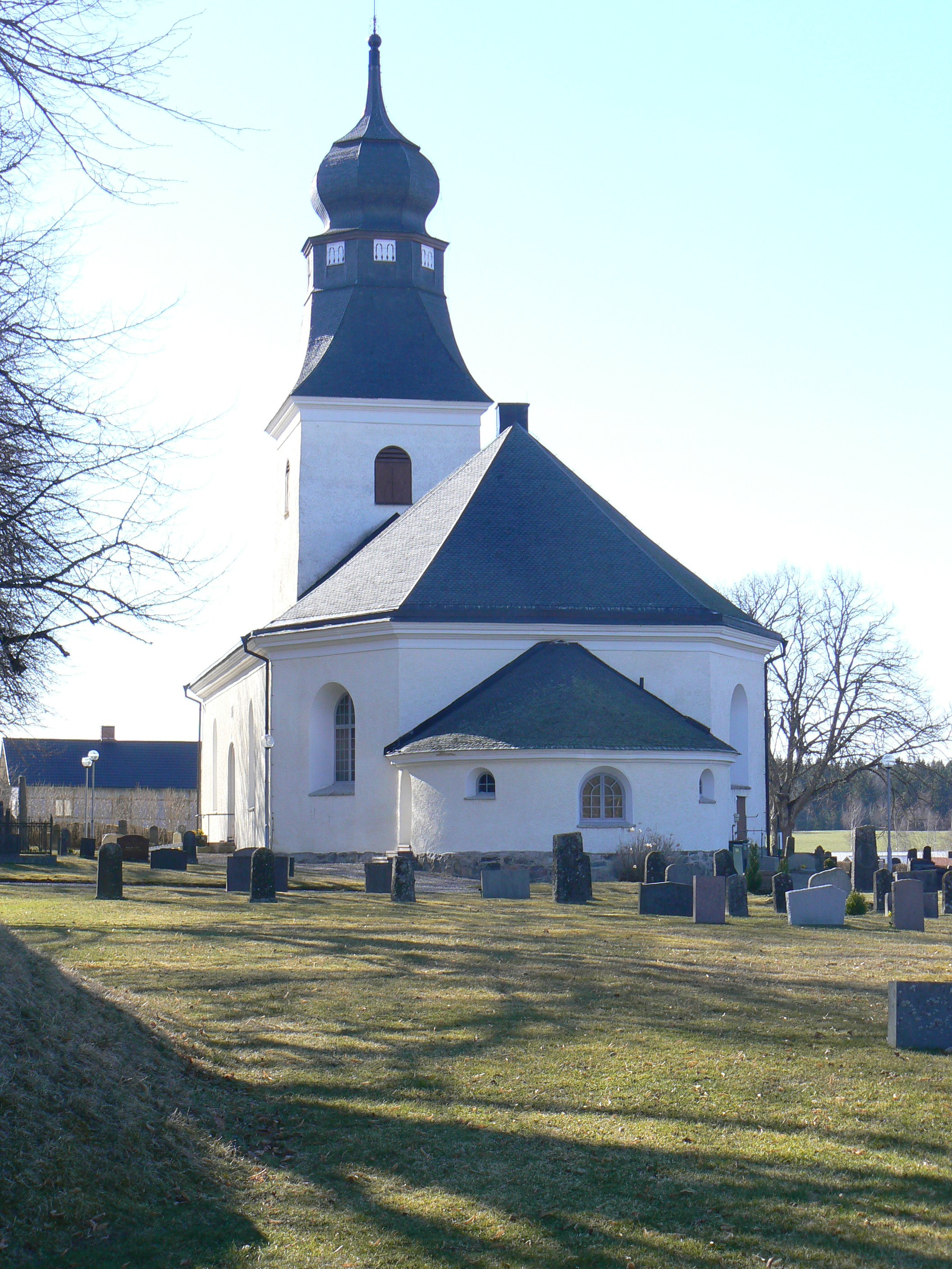 Regna church in Östergötland Sweden. Photo taken from east, by Skvattram.